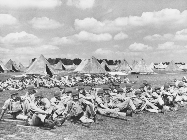 Australian troops from the 2/12th Infantry Battalion in England in November 1940